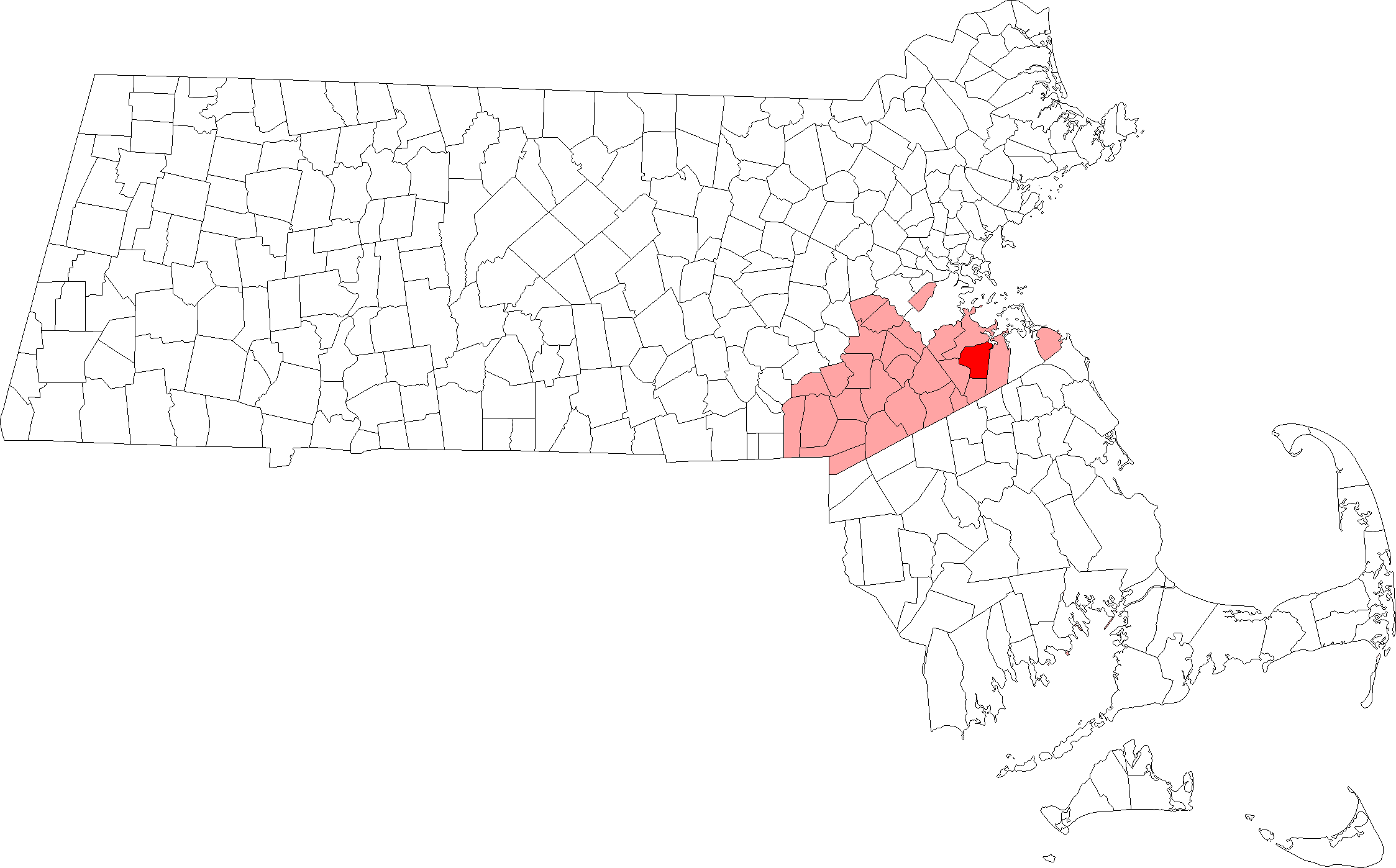 Location of Braintree in Norfolk County, Massachusetts